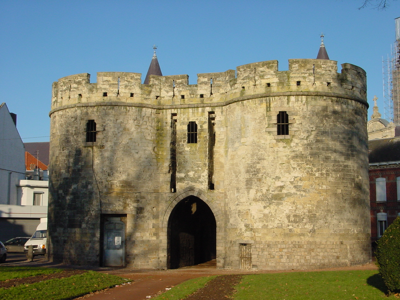 The Gate of Paris in Cambrai, France (late 14th C)